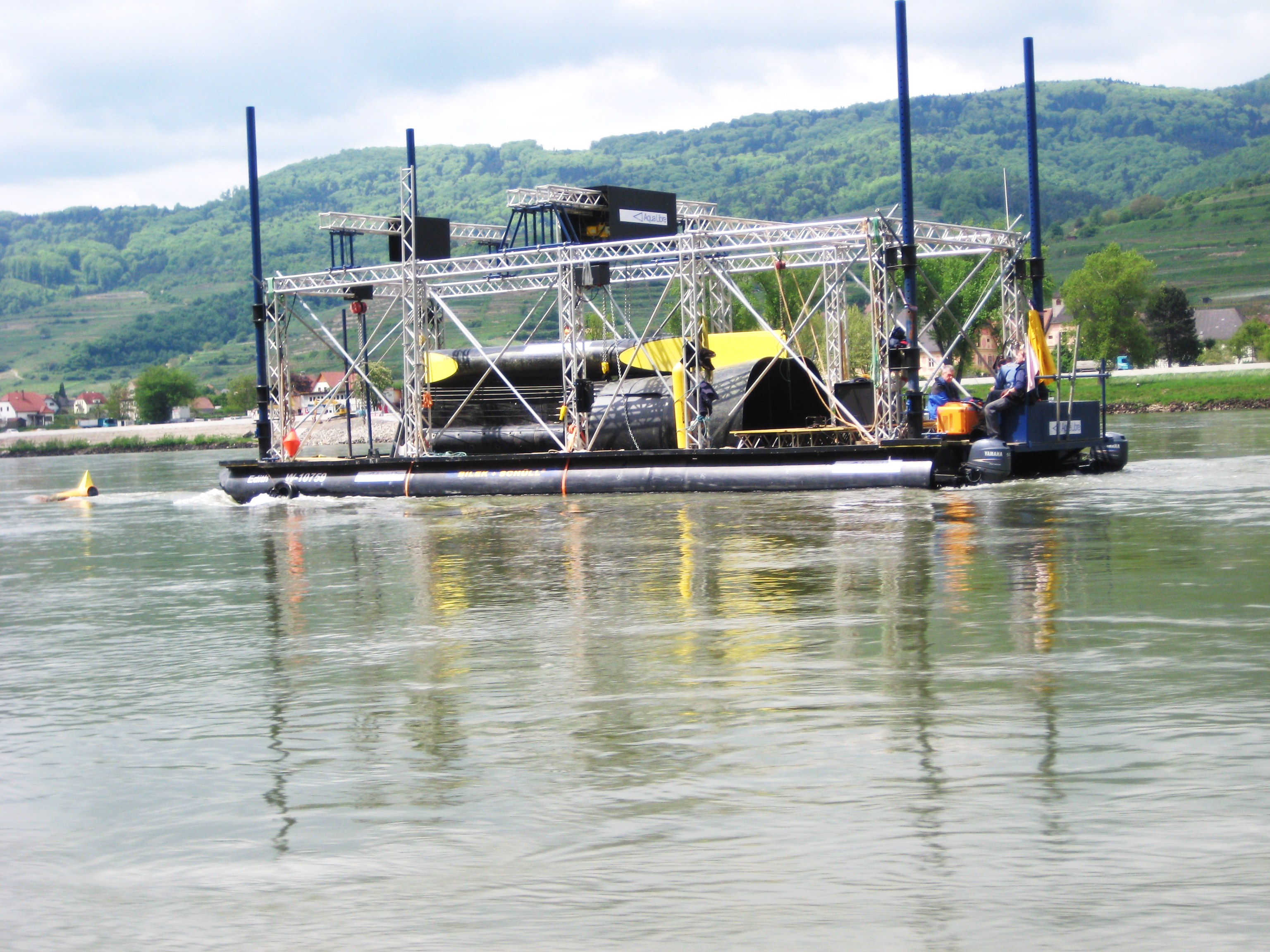 Strom-Boje